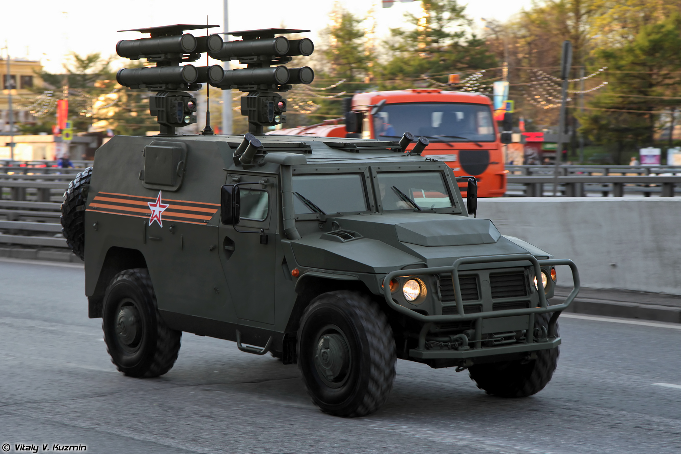 Kornet-D ATGM system on VPK-233116 Tigr-M base